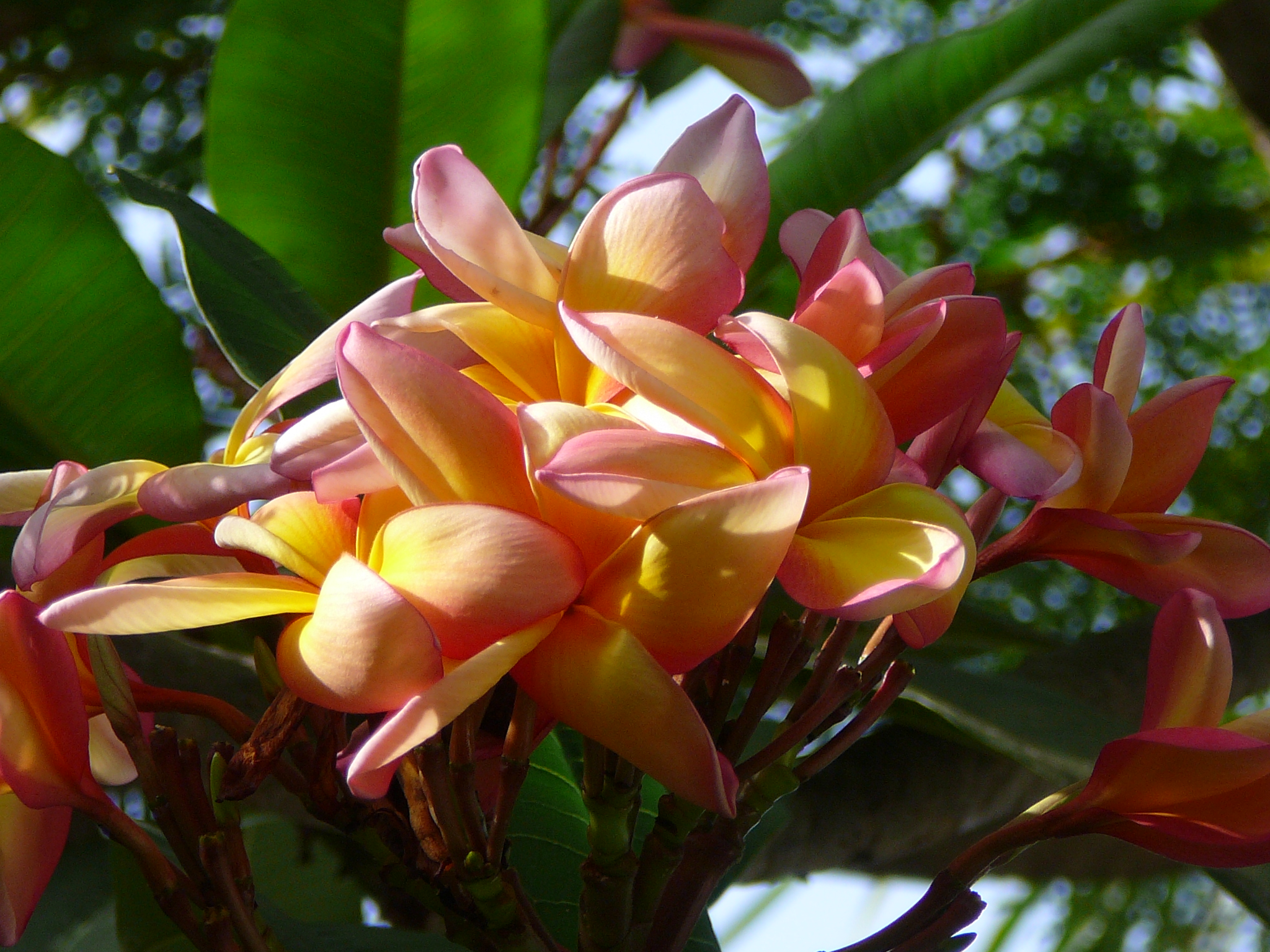 Plumeria